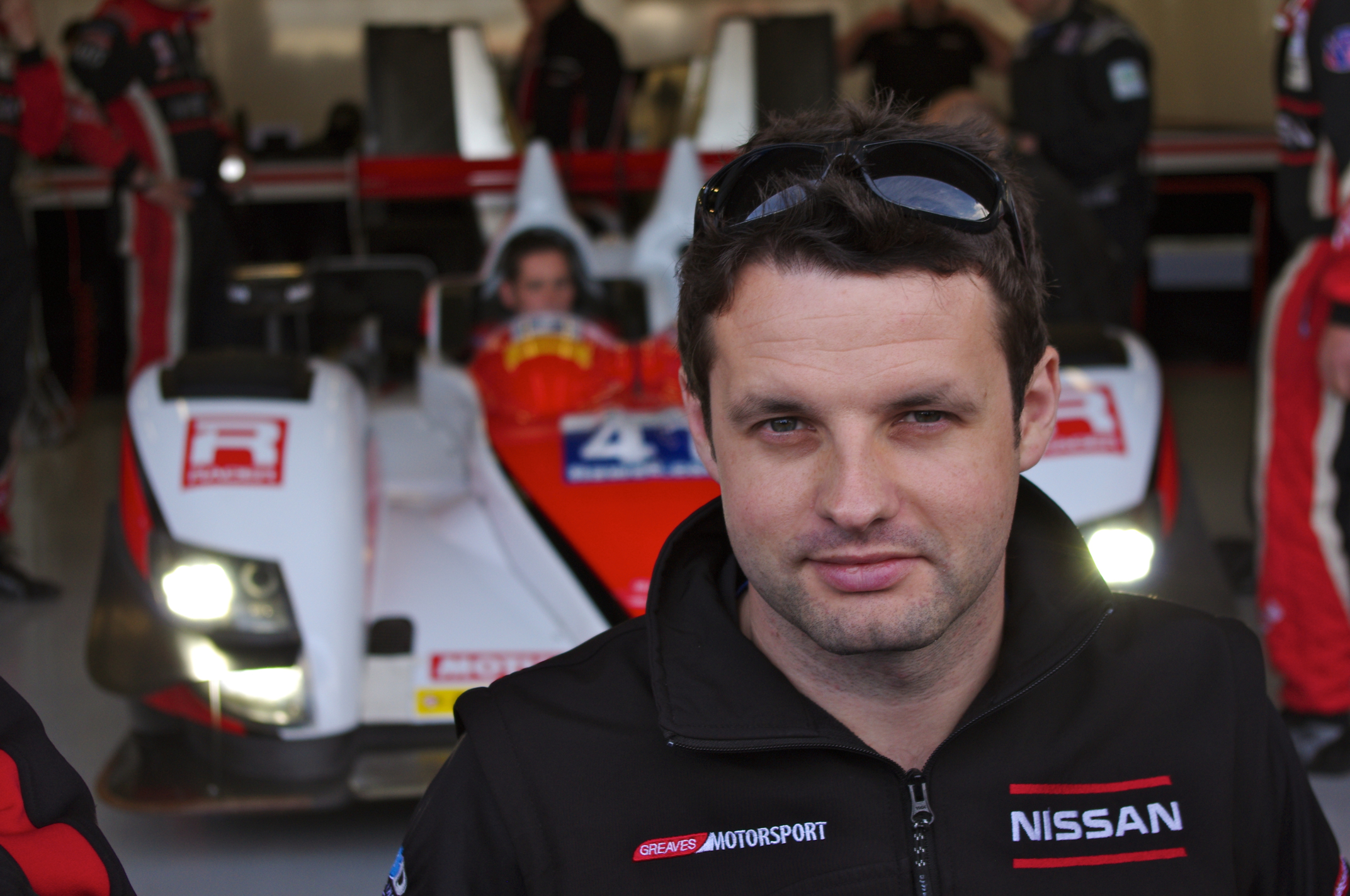 Silverstone 6 Hours 2013 FIA World Endurance Championship (WEC)